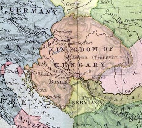 Map of Europe, ca. 1190 A.D.